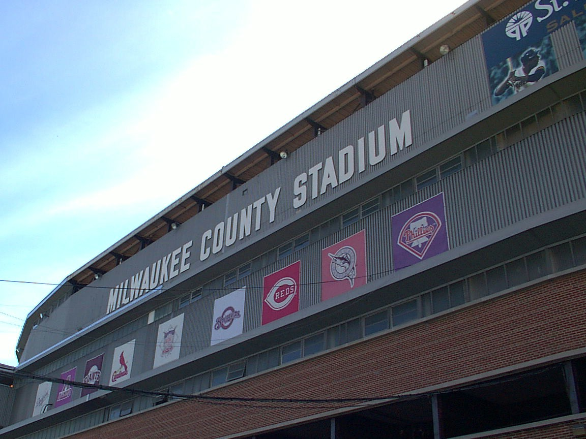 Milwaukee County Stadium marquee sign, third base grandstands, taken September 24, 2000. Author's last visit to the Stadium. Pictured are the logos of eight National League teams (including the Brewers) and the National League itself. The advertisement in the upper right was a "countdown clock" to the new stadium.